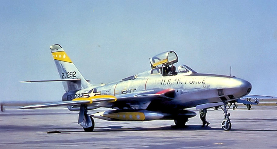 32d Tactical Reconnaissance Squadron - Republic RF-84F-25-RE Thunderflash - 52-7292